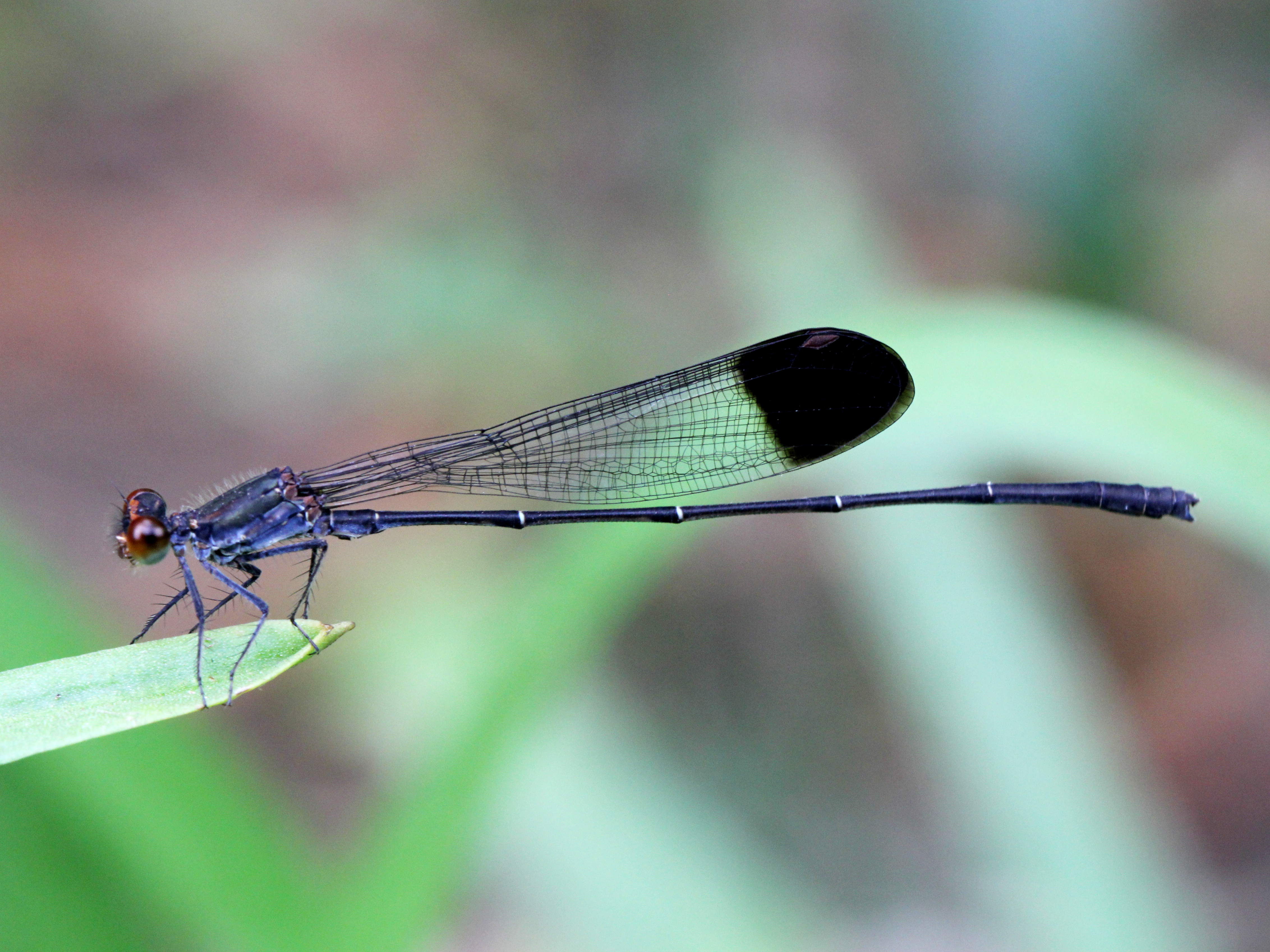 Disparoneura apicalis - male from Kuruva Island